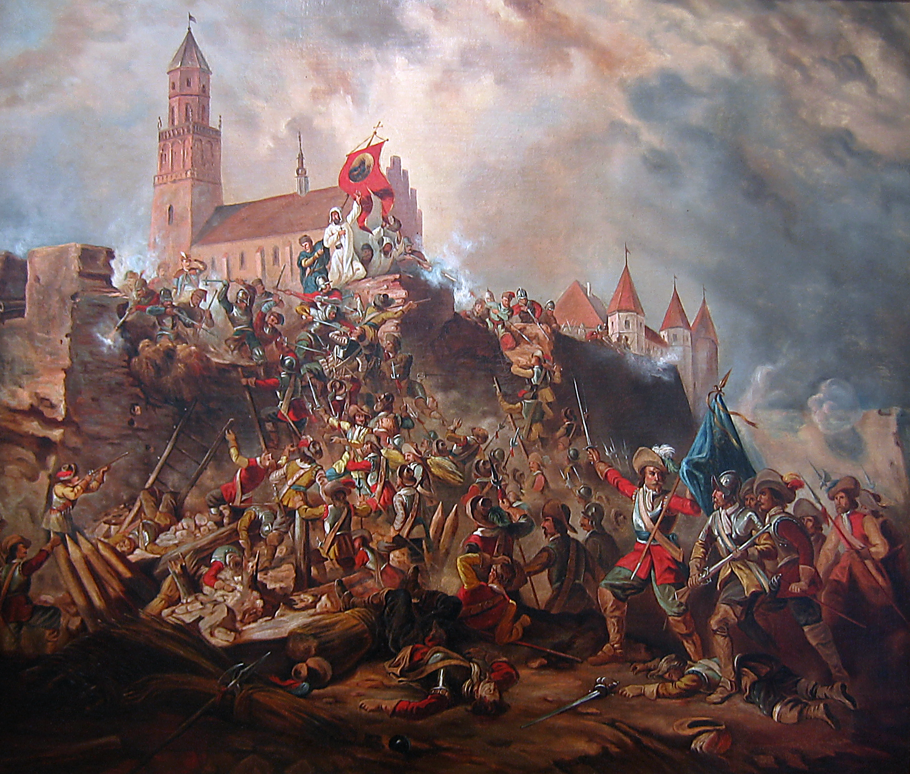 Siege of Clari Montis (Jasna Góra) in 1655